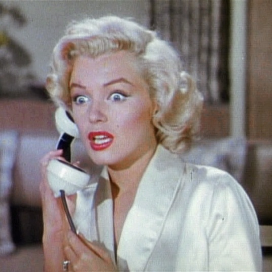 Cropped screenshot of Marilyn Monroe from the trailer of the film Gentlemen Prefer Blondes (1953).